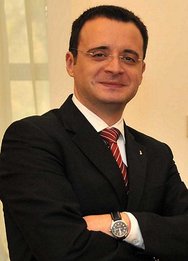 Photo of Darko Angelov, Macedonian diplomat, incumbent ambassador of the Republic of Macedonia to the Republic of Hungary